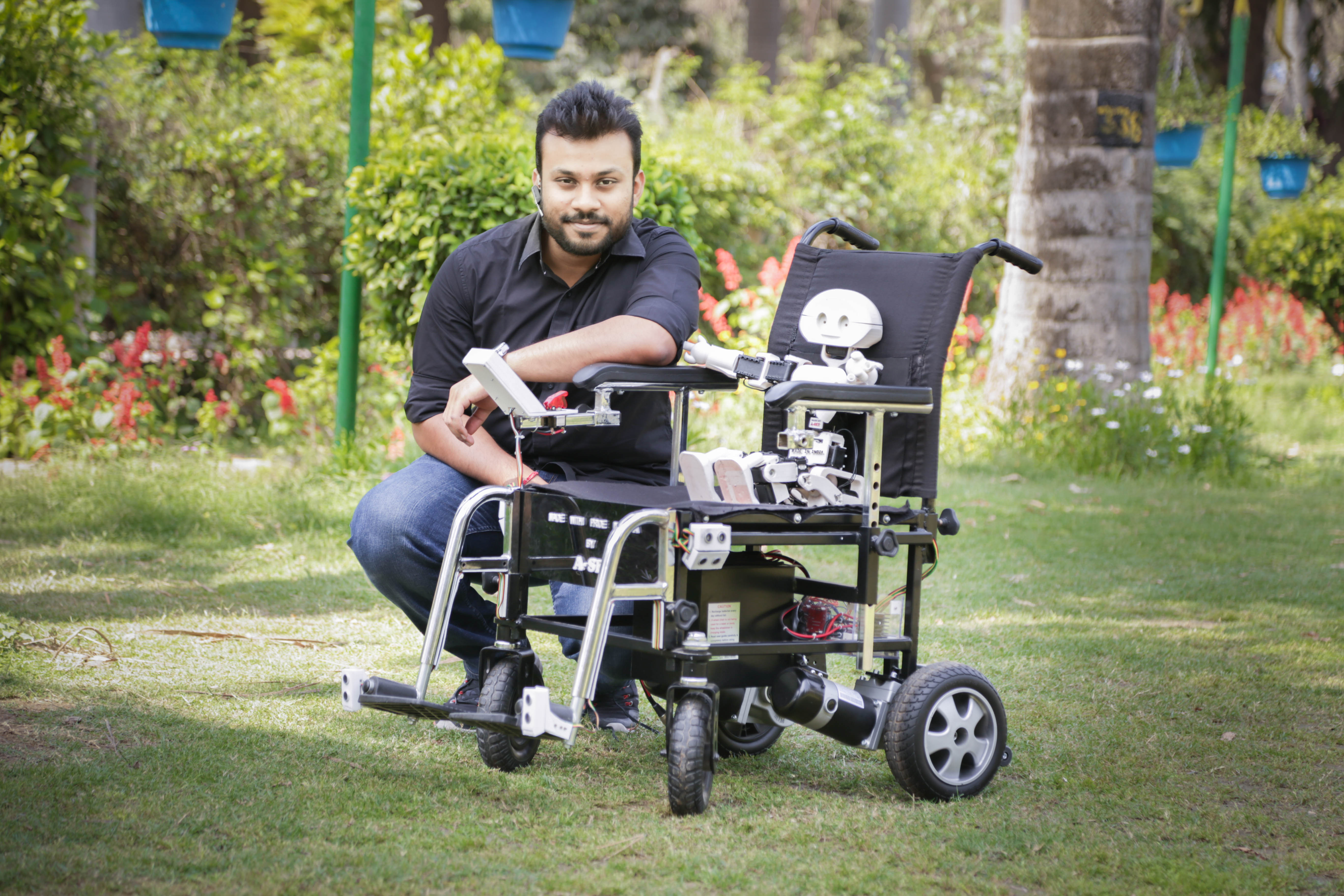 Diwakar Vaish, the inventor of the wheelchair at the press launch, with his brainchild, Manav, on the wheelchair